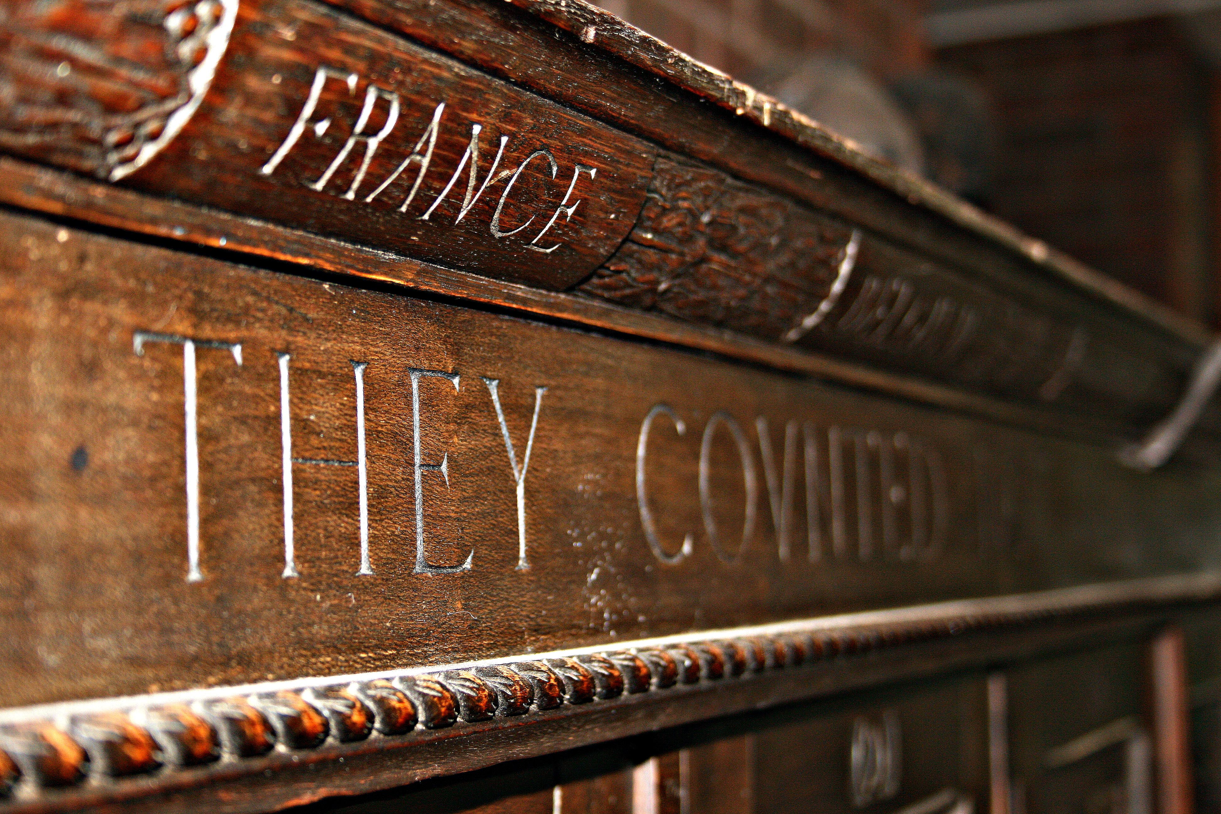 Photo of the memorial lockers at JHGS